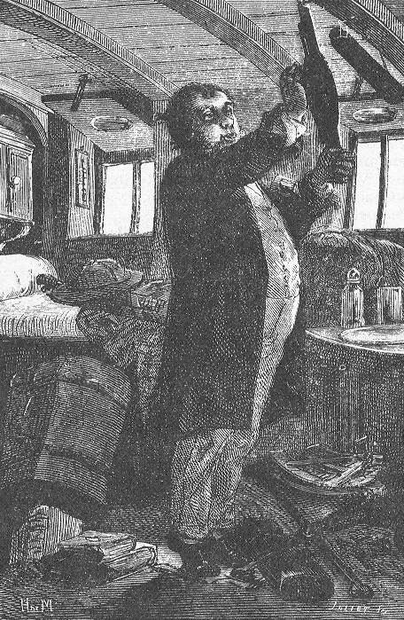 An illustration from Jules Verne's novel "Journeys and Adventures of Captain Hatteras", part I: "The English at the Noth Pole" drawn by Édouard Riou and/or Henri de Montaut.